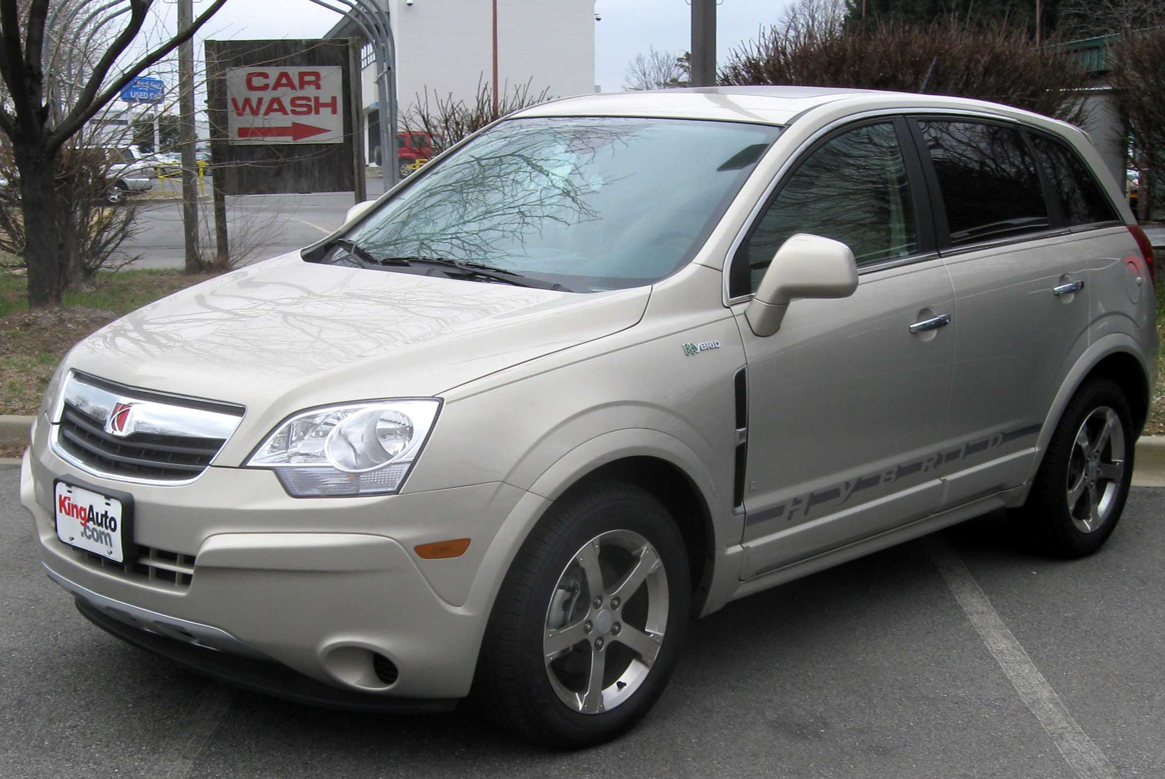 2009 Saturn Vue photographed in Silver Spring, Maryland, USA.